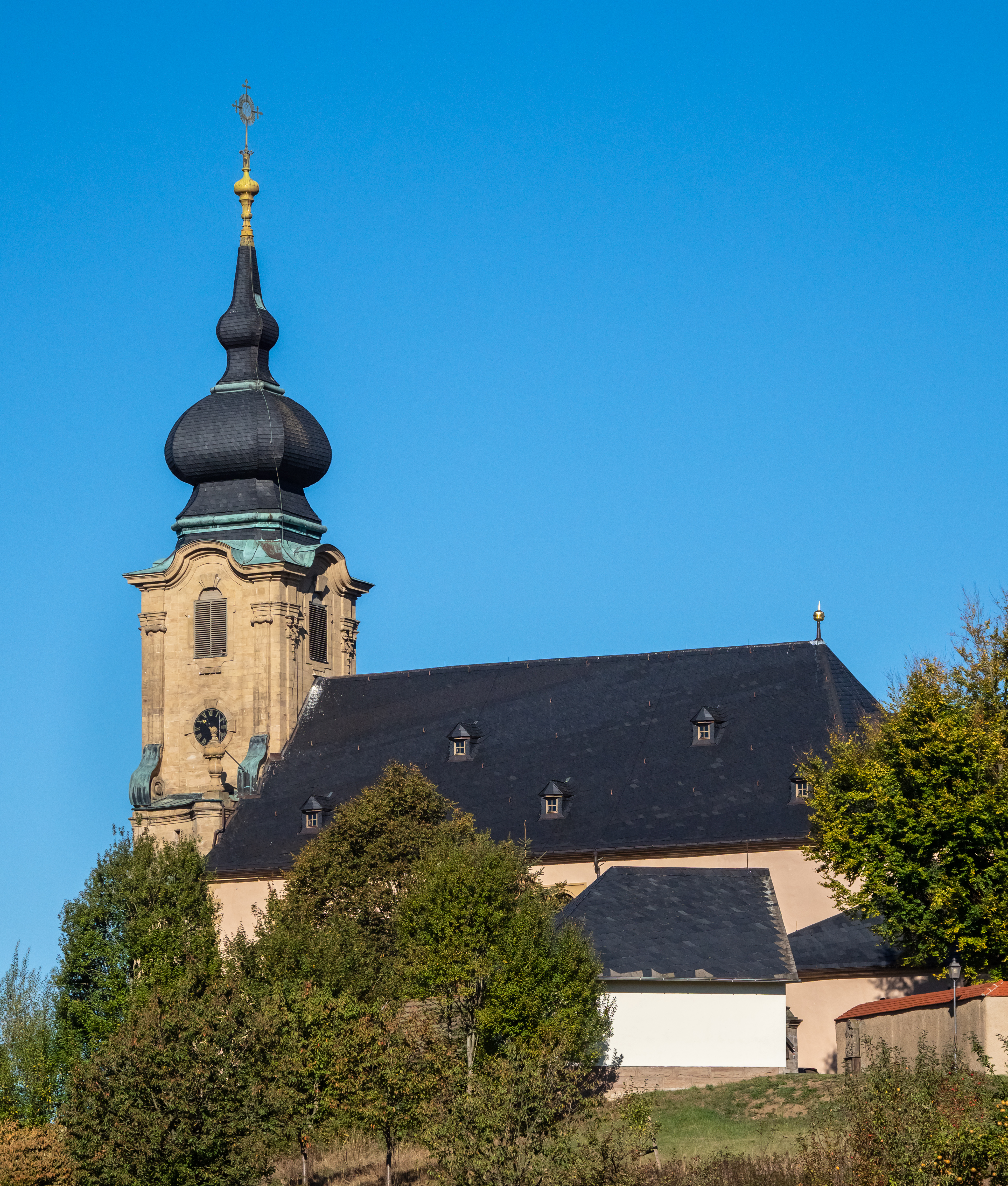 Pilgrimage basilica in Marienweiher